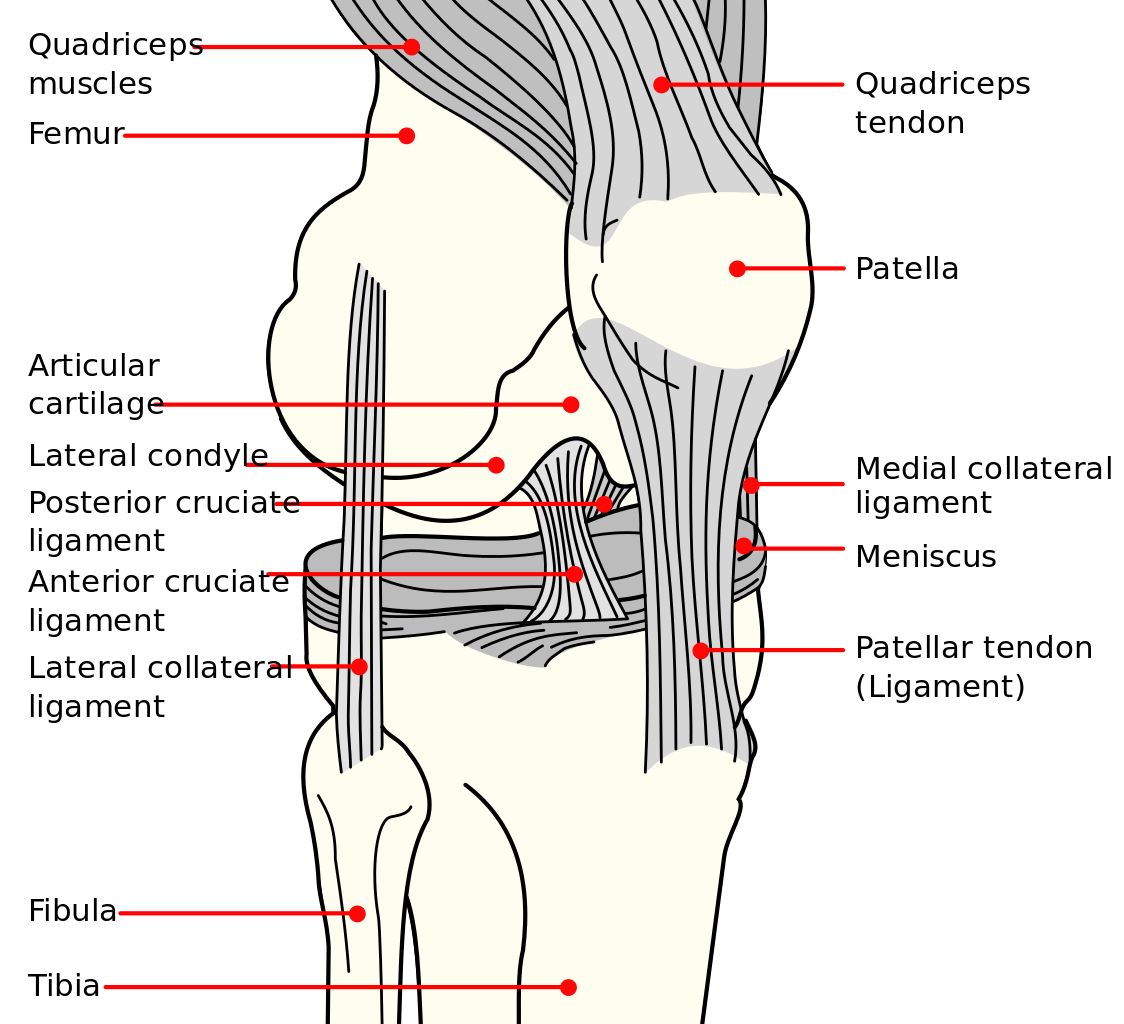 Right knee, seen from an angle between anteriorly and laterally.